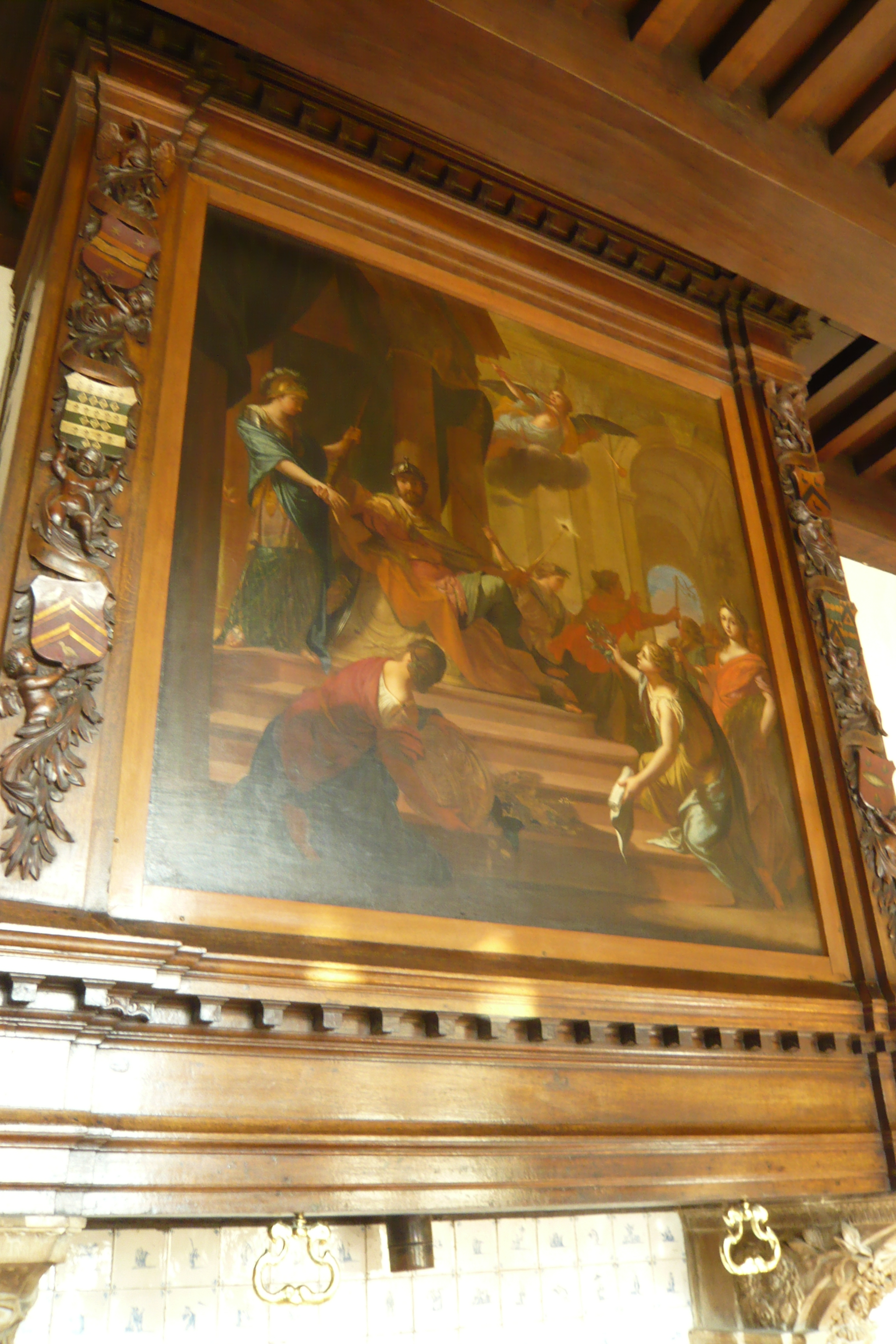 Painting titled "Allegory of good governement" over the mantel in the Haarlem city hall mayor's office. Signed and dated lower right TFerreri.